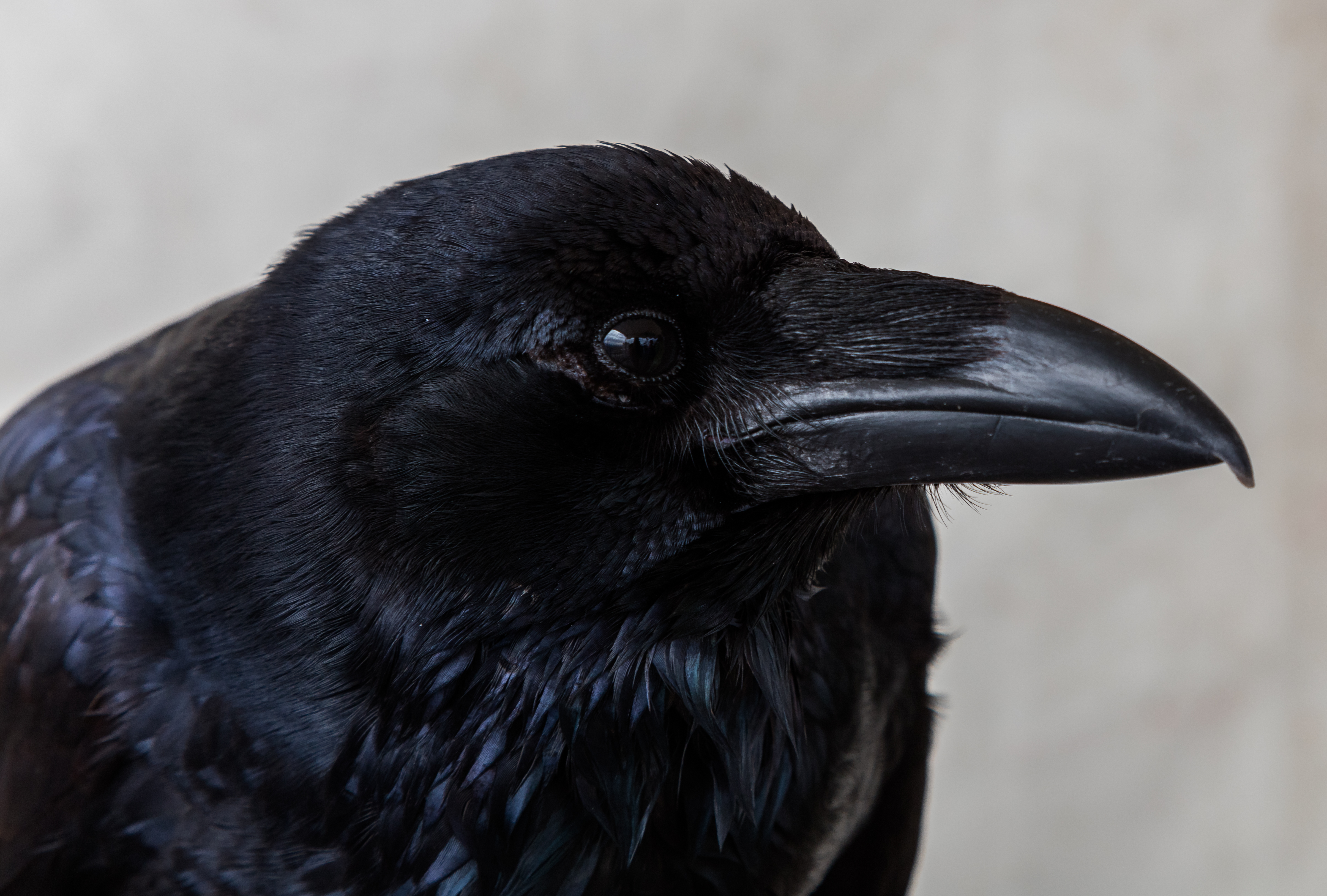 Common raven (Corvus corax), Arcos de la Frontera, Cádiz, Spain